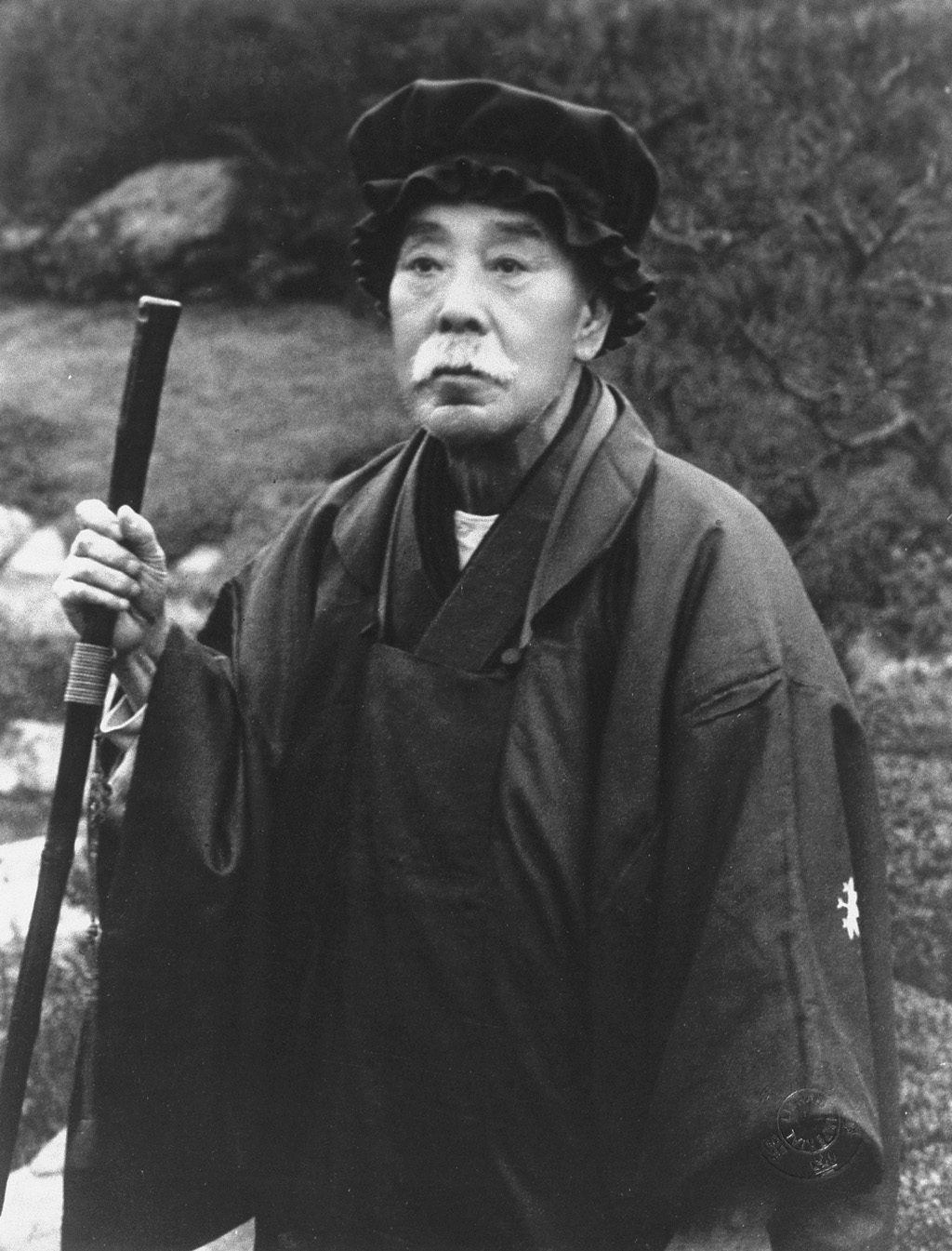 Portrait of Miura Goro (三浦梧楼, 1847 – 1926)